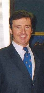 Brian Higgins at his New York State Assembly Office in Albany, NY, February 2000